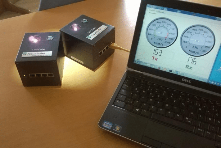 View of two tabletop modules under the narrow (c. Ø 20 cm) "single working space" optical spot (2018). On the laptop screen the corresponding up-and downlink data rates (Mbit/s) can be observed.